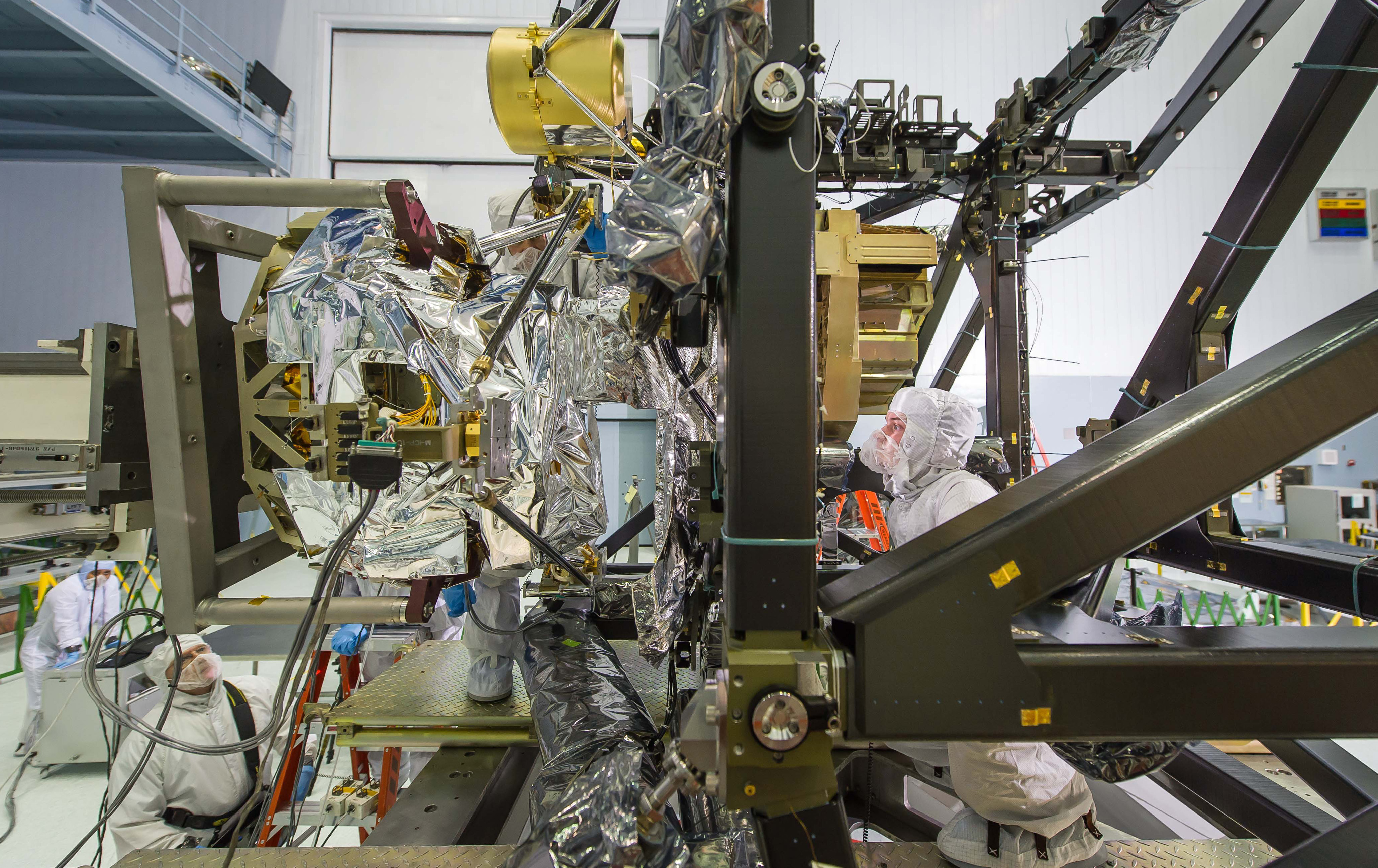 Engineers Tom Huber (behind MIRI) and Mick Wilks (inside black ISIM Structure) check that MIRI is integrated precisely. The engineers have to make sure that MIRI, the only instrument on the Webb telescope that 'sees' mid-infrared light, is precisely positioned so that it and the other instruments can glimpse the formation of galaxies and see deeper into the universe than ever before. Photo Credit: NASA/Chris Gunn; Text Credit: NASA/Laura Betz Engineers worked meticulously to implant the James Webb Space Telescope's Mid-Infrared Instrument into the ISIM, or Integrated Science Instrument Module, in the cleanroom at NASA's Goddard Space Flight Center in Greenbelt, Md. As the successor to NASA's Hubble Space Telescope, the Webb telescope will be the most powerful space telescope ever built. It will observe the most distant objects in the universe, provide images of the first galaxies formed and see unexplored planets around distant stars. For more information, visit: NASA image use policy. NASA Goddard Space Flight Center enables NASA’s mission through four scientific endeavors: Earth Science, Heliophysics, Solar System Exploration, and Astrophysics. Goddard plays a leading role in NASA’s accomplishments by contributing compelling scientific knowledge to advance the Agency’s mission. Follow us on Twitter Like us on Facebook Find us on Instagram